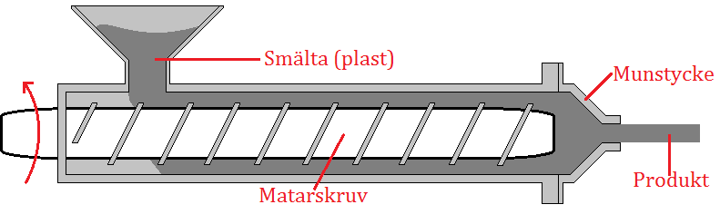 A picture illustrating the process of extrusion.